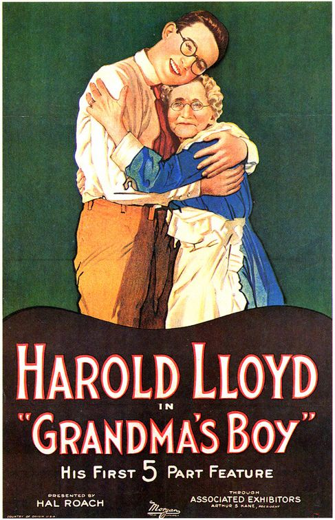 Movie poster for Grandma's Boy (1922).